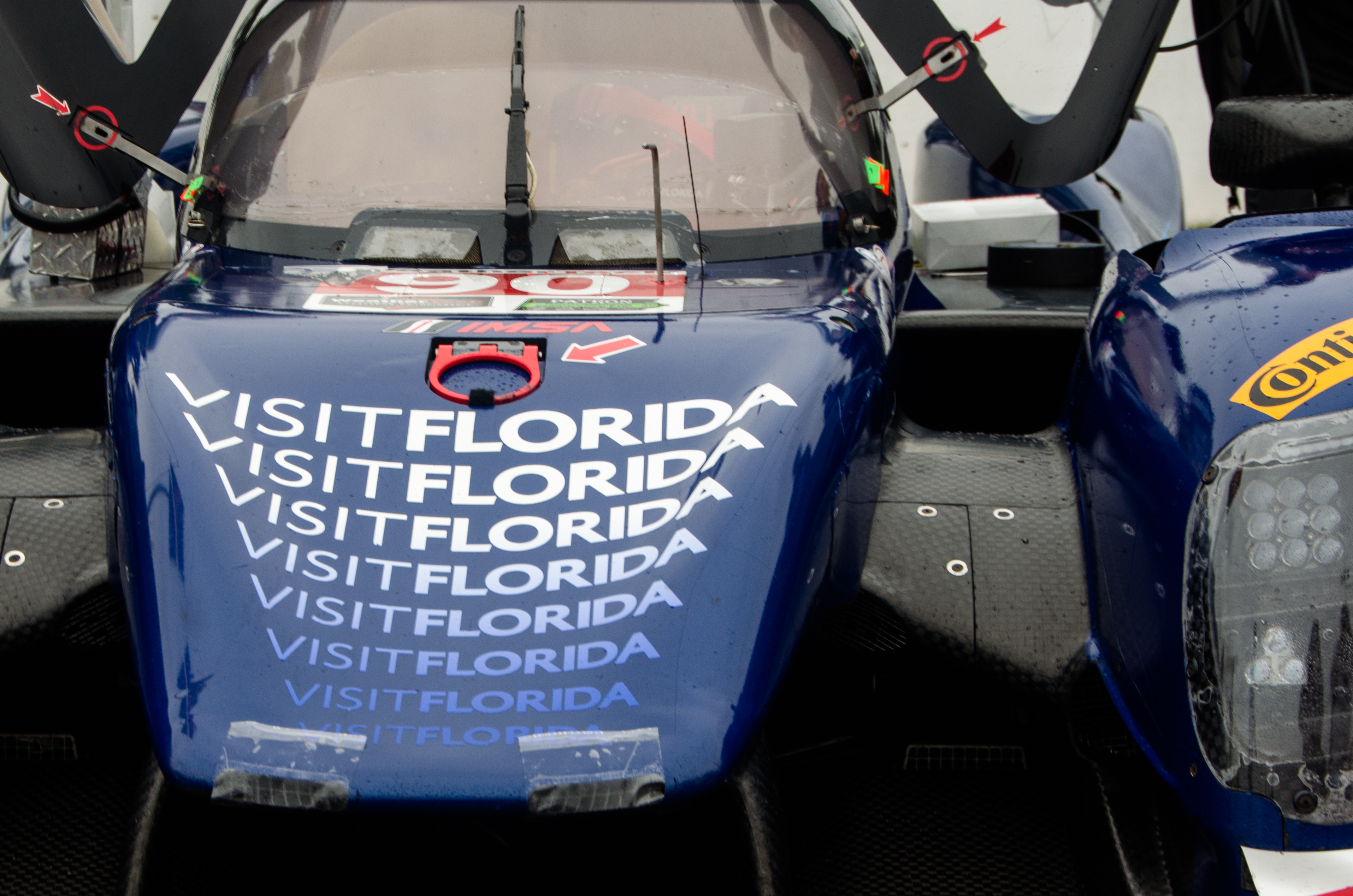 Ligier JS P217 Racing Petit Le Mans 2017. Marc Goossens - Renger van der Zande - Jonathan Bomarito